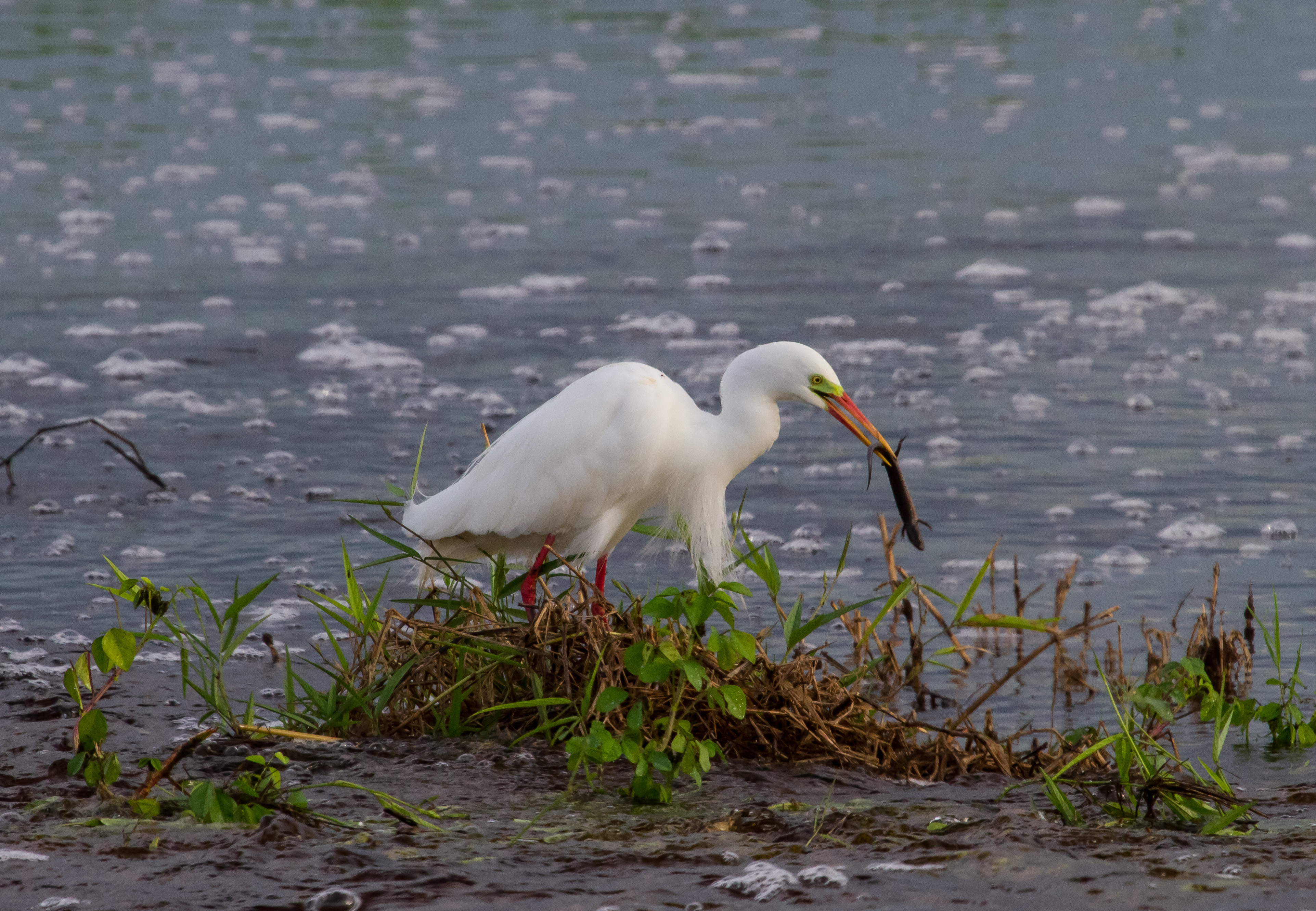 Intermediate Egret - Fogg Dam - Middle Point - Northern Territory - Australia